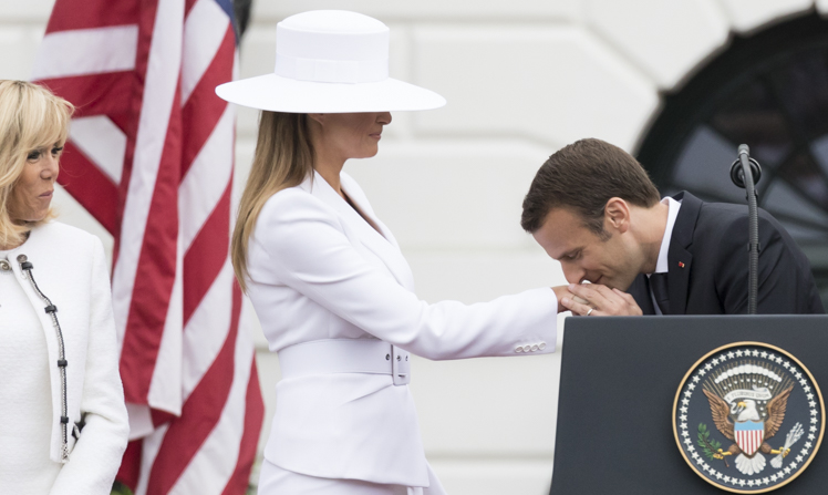 The arrival ceremony of the President of France and Mrs. Macron (Official White House Photo by Andrea Hanks)